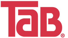 Logo for TaB cola